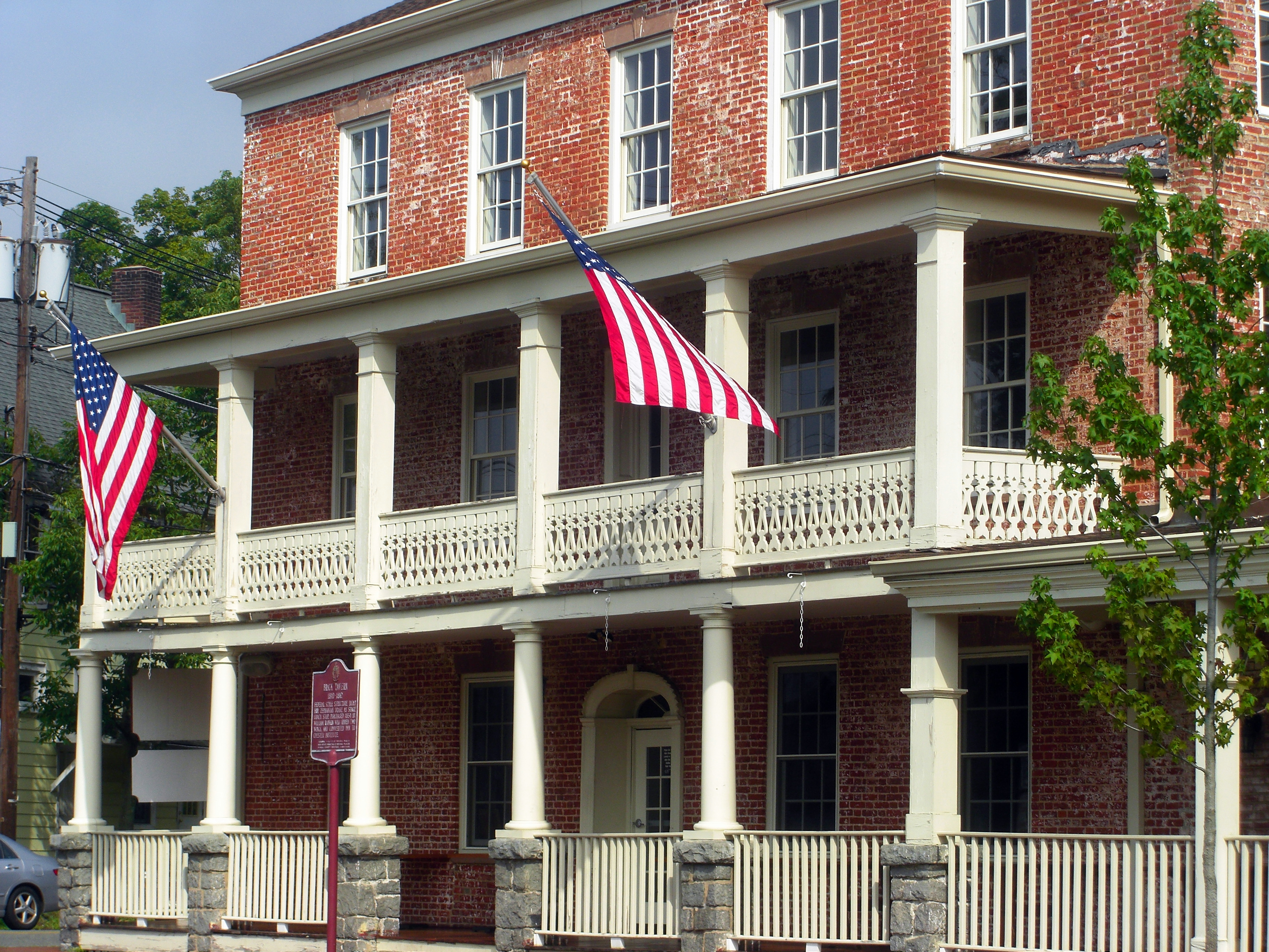 The Chester Publick House in Morris County, NJ.